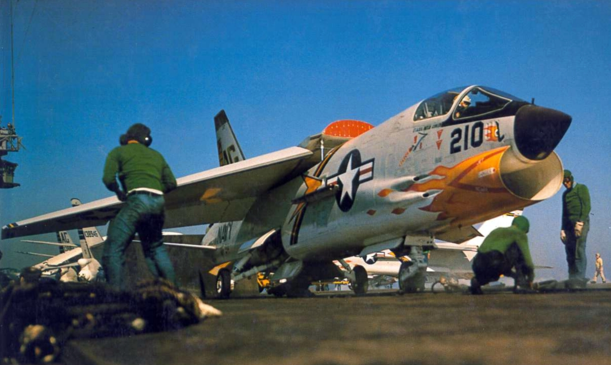 A U.S. Navy Vought F-8C Crusader from Fighter Squadron VF-84 Jolly Rogers on the catapult of the aircraft carrier USS Independence (CVA-62). VF-84 was assigned to Carrier Air Wing 7 (CVW-7) aboard the Independence for a deployment to the Mediterranean Sea from 6 August 1963 to 4 March 1964.